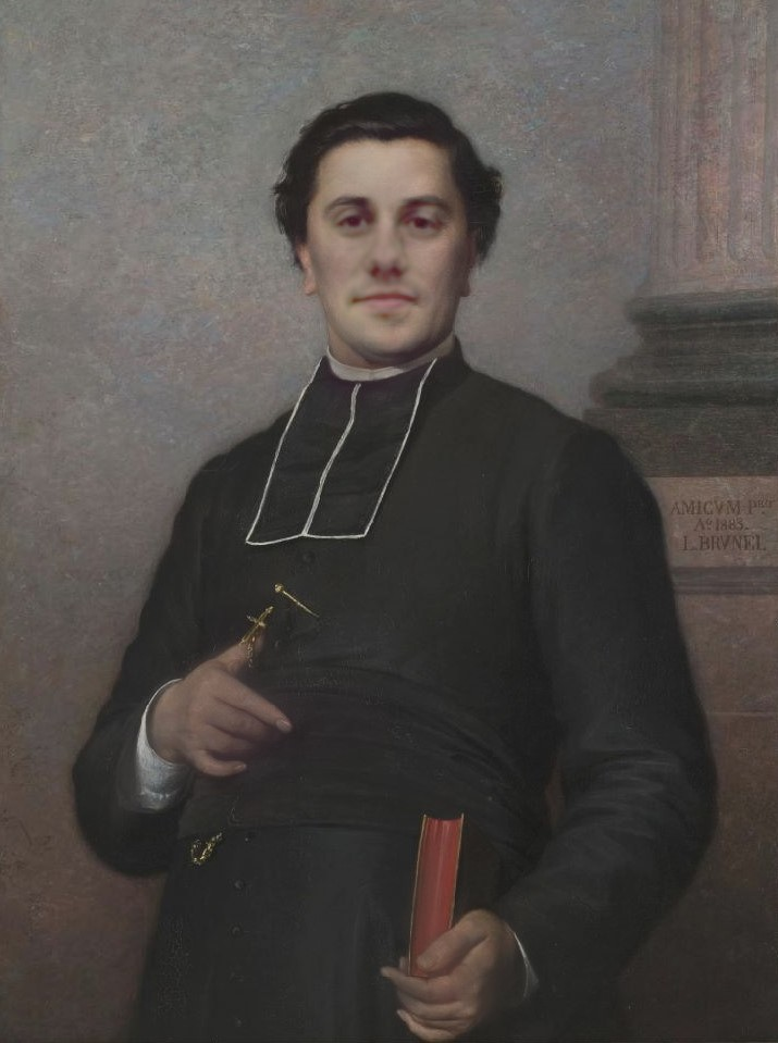 Portrait de L'abbé Peccatte par Lionel Brunel